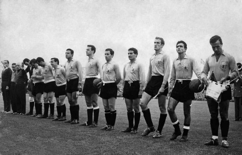 The Argentina national team wearing the yellow jersey (and badge) of local team Malmo IFK. The side wore that kit v. West Germany (lost 1-3) at the 1958 FIFA World Cup. Fltr: Guillermo Stábile (manager), Amadeo Carrizo, Federico Vairo, Néstor Rossi, Norberto Menéndez, Alfredon Rojas, Eliseo Prado, Osvaldo Cruz, Juan Lombardo, José Varacka, Oreste Corbatta, Pedro Delllacha.